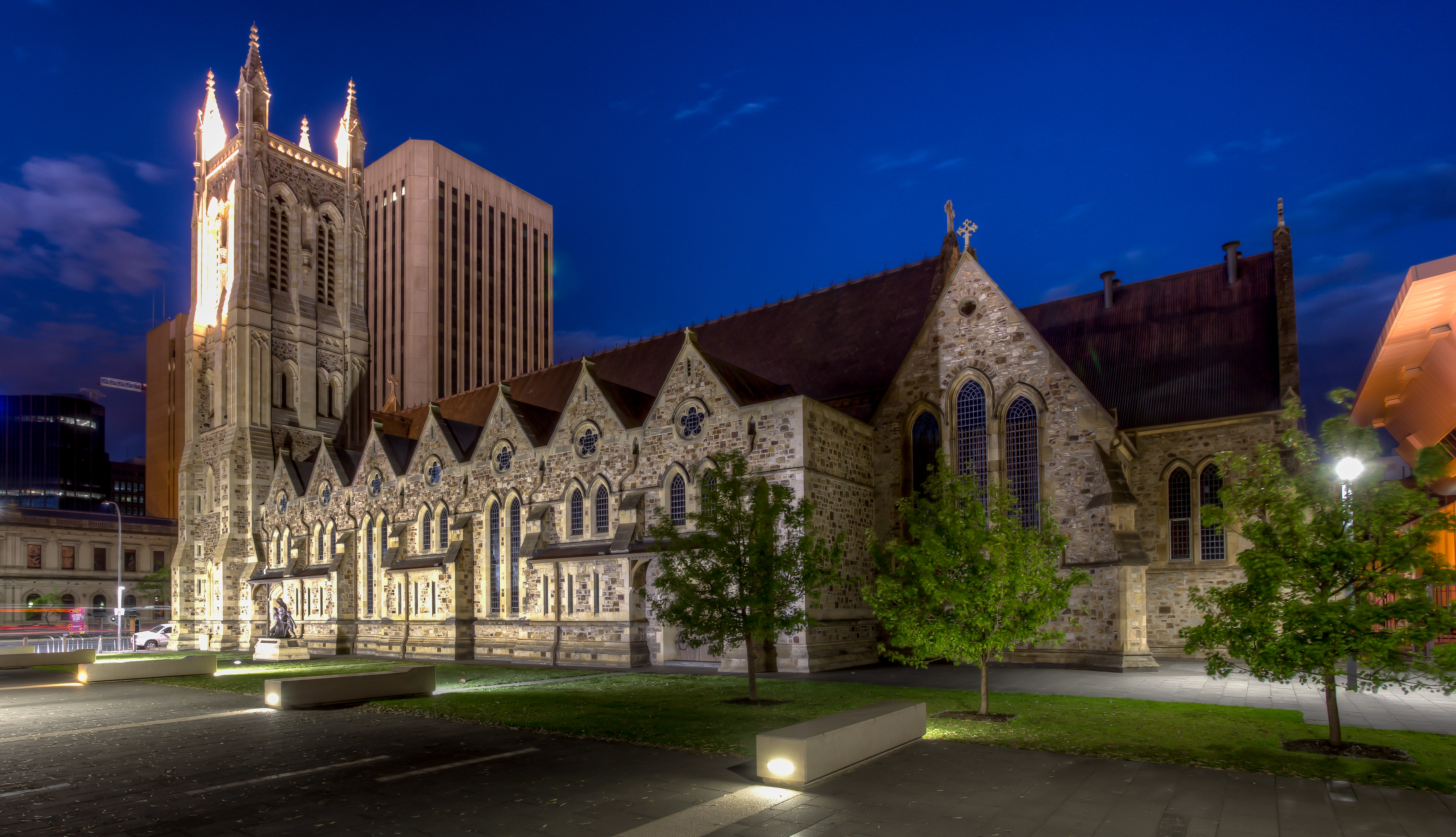 St Francis Xavier's Cathedral